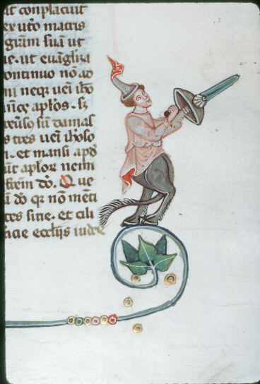 Illuminated Manuscript in a Spanish Bible (Tours / ms. 0008 f. 533)